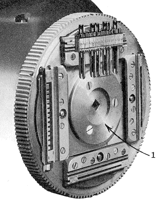 Linotype mold disk, with a complete line of matrices and spacebands ready to be cast